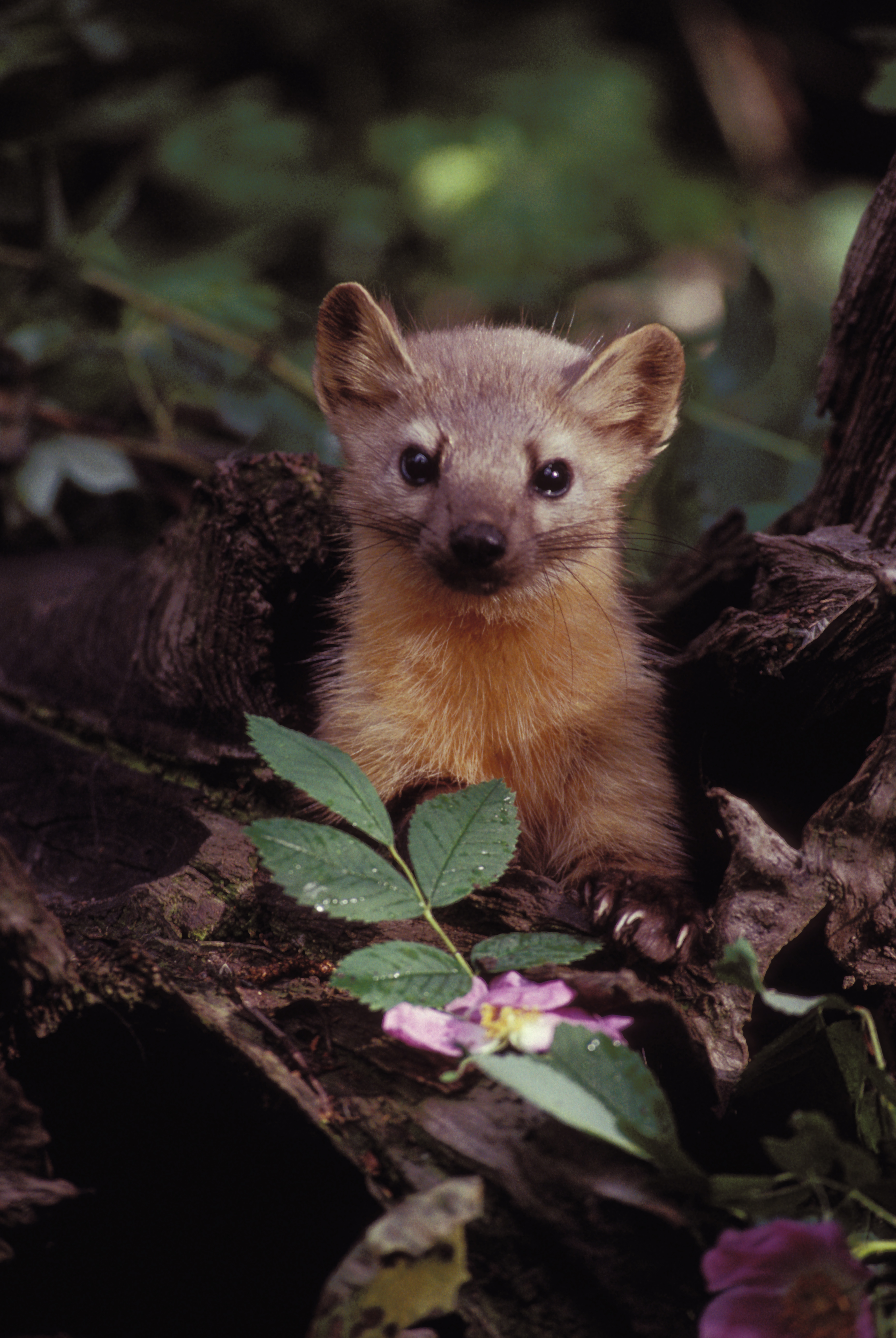 Martes martes (according to original description page) or Martes americana (according to American Marten), front view with flowers.